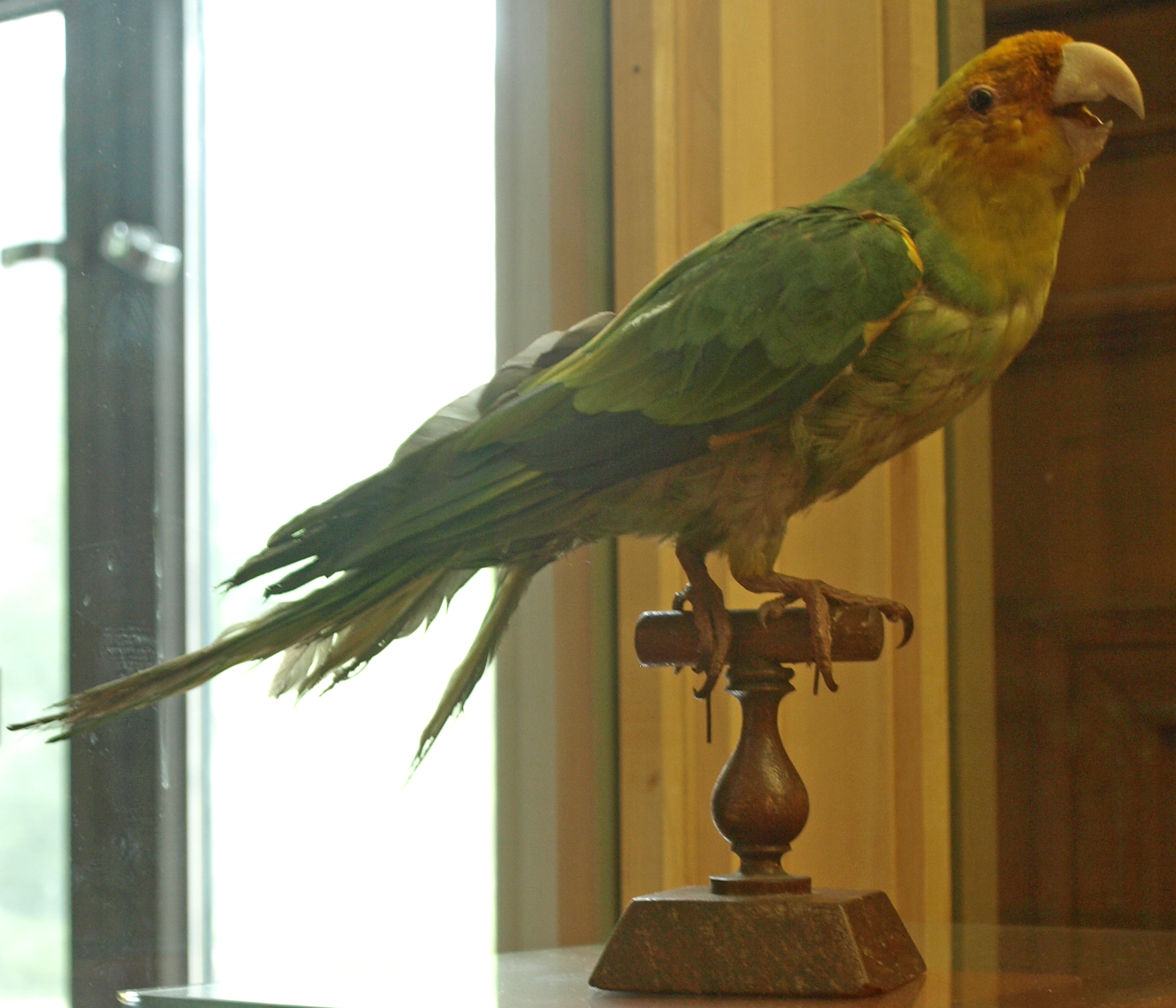 A stuffed specimen of Conuropsis carolinensis, on display at the Redpath Museum, Montreal.